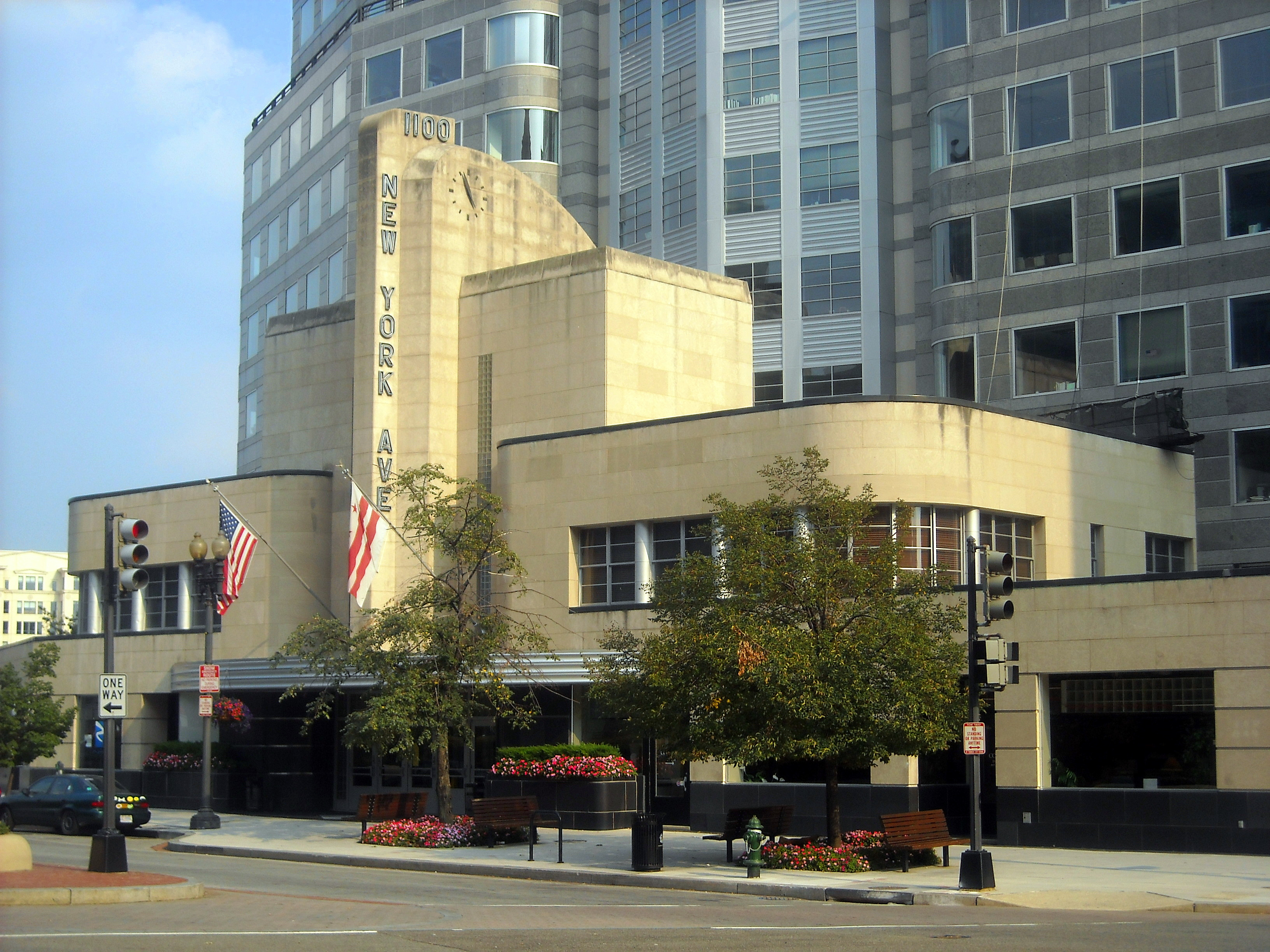 The Art Deco 1100 New York Avenue, NW in Washington, D.C.